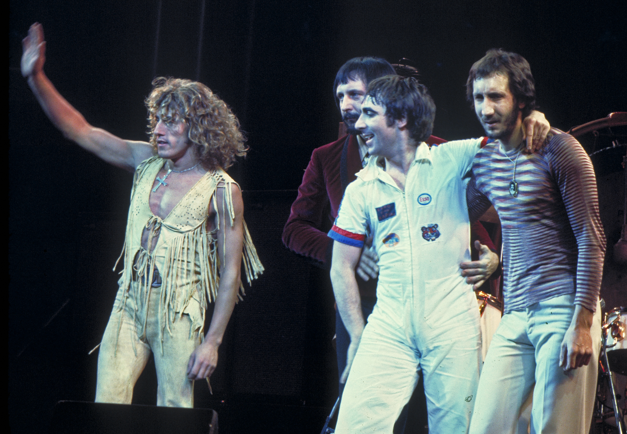 The Who, original line up, performing in Chicago. Left to right: Roger Daltrey, John Entwistle, Keith Moon, Pete Townshend.